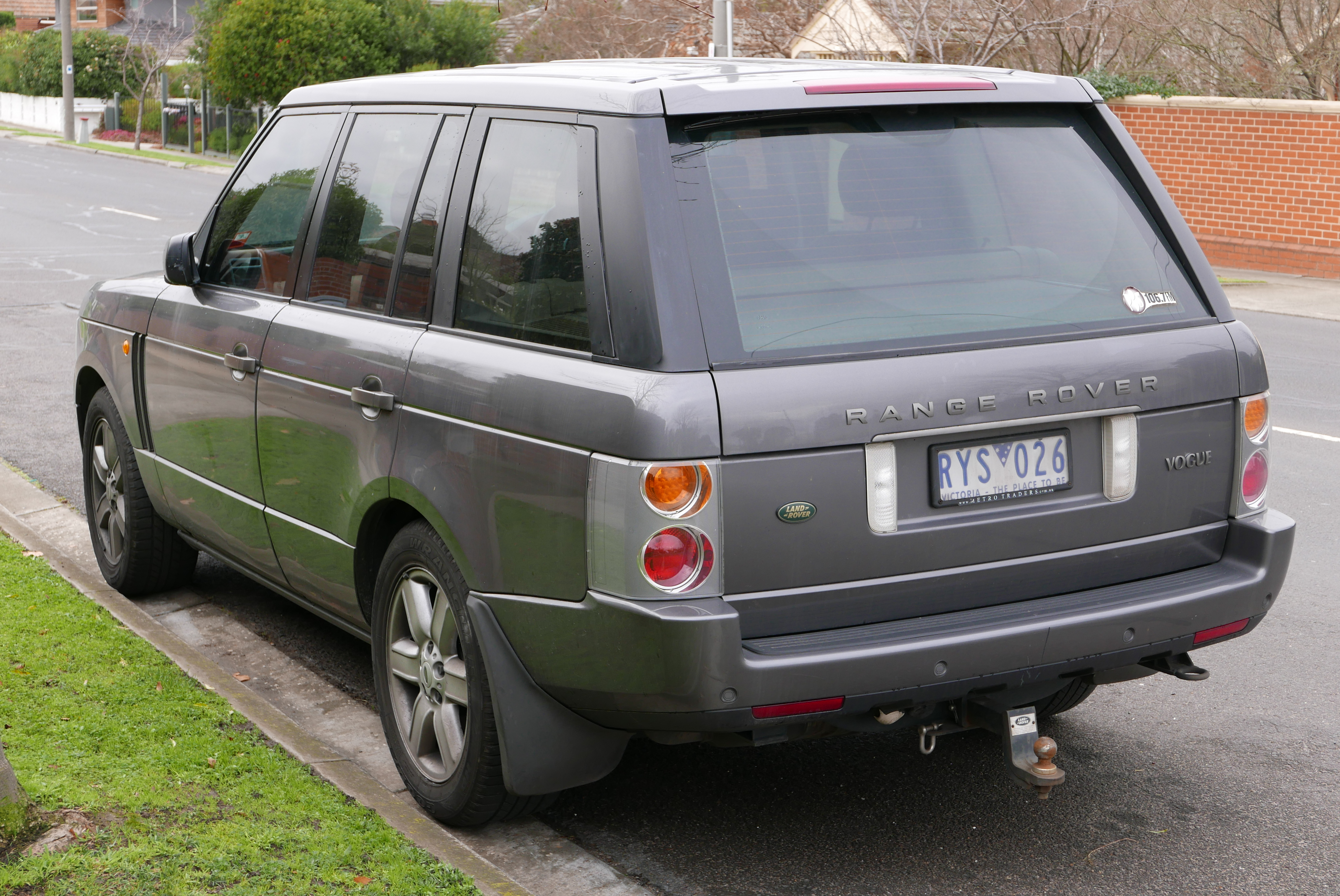 2002 Land Rover Range Rover (L322 MY03) Vogue wagon. Photographed in Ivanhoe, Victoria, Australia. Vehicle registration enquiry results Jurisdiction Victoria Registration RYS026 Chassis code SALLMAMA33A118578 Engine code 5233281644852 Compliance date 2002-12 Year of manufacture 2002